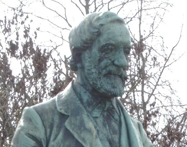 Eduard Moll 1896